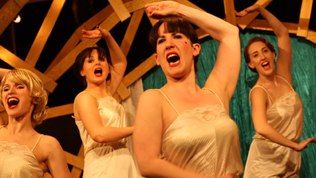 Halbwelt Kultur performance at the Riverside Studios in 2013